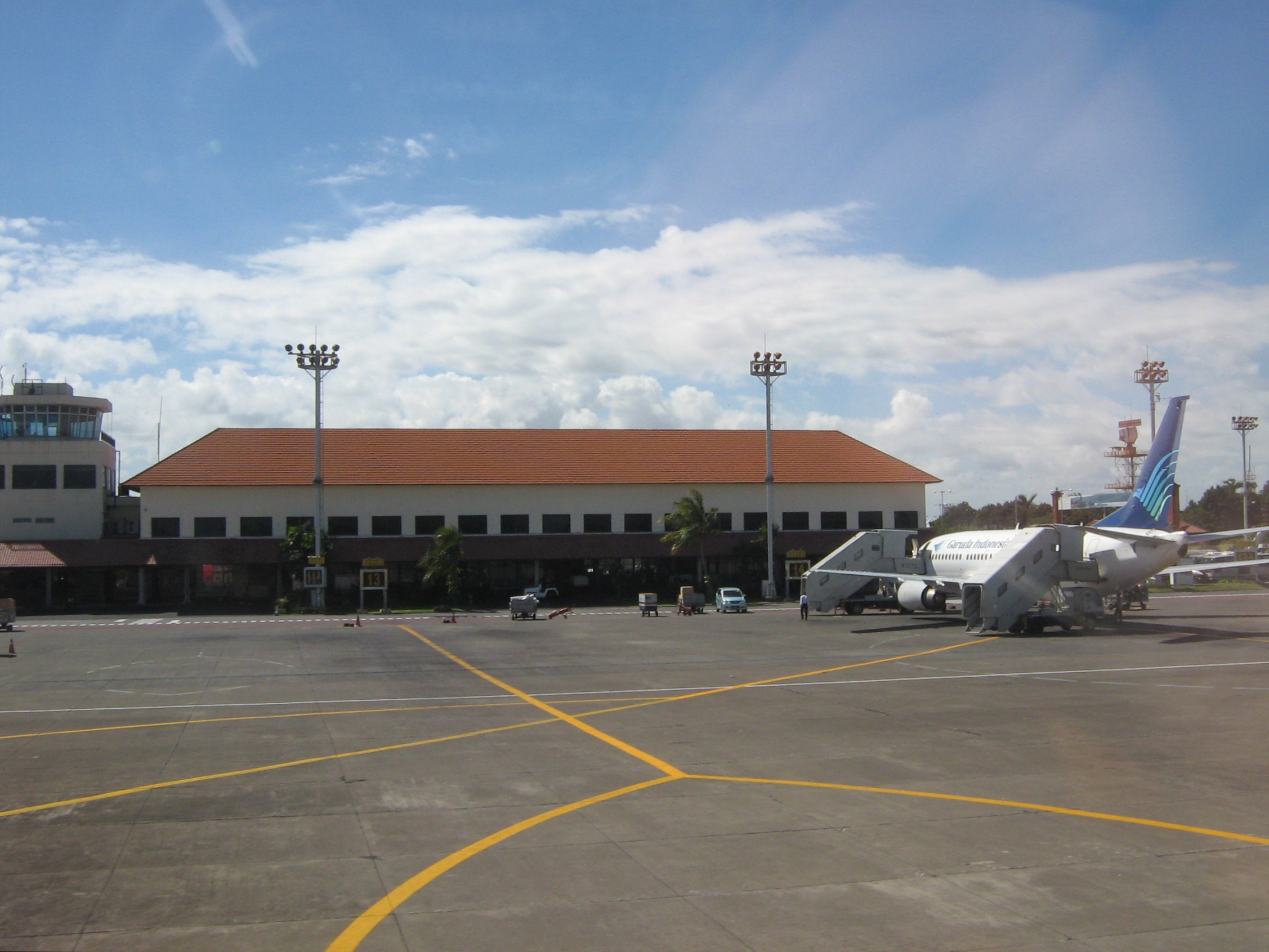 Apron View of Denpasar, Indonesia, Ngurah Rai Airport Domestic Terminal